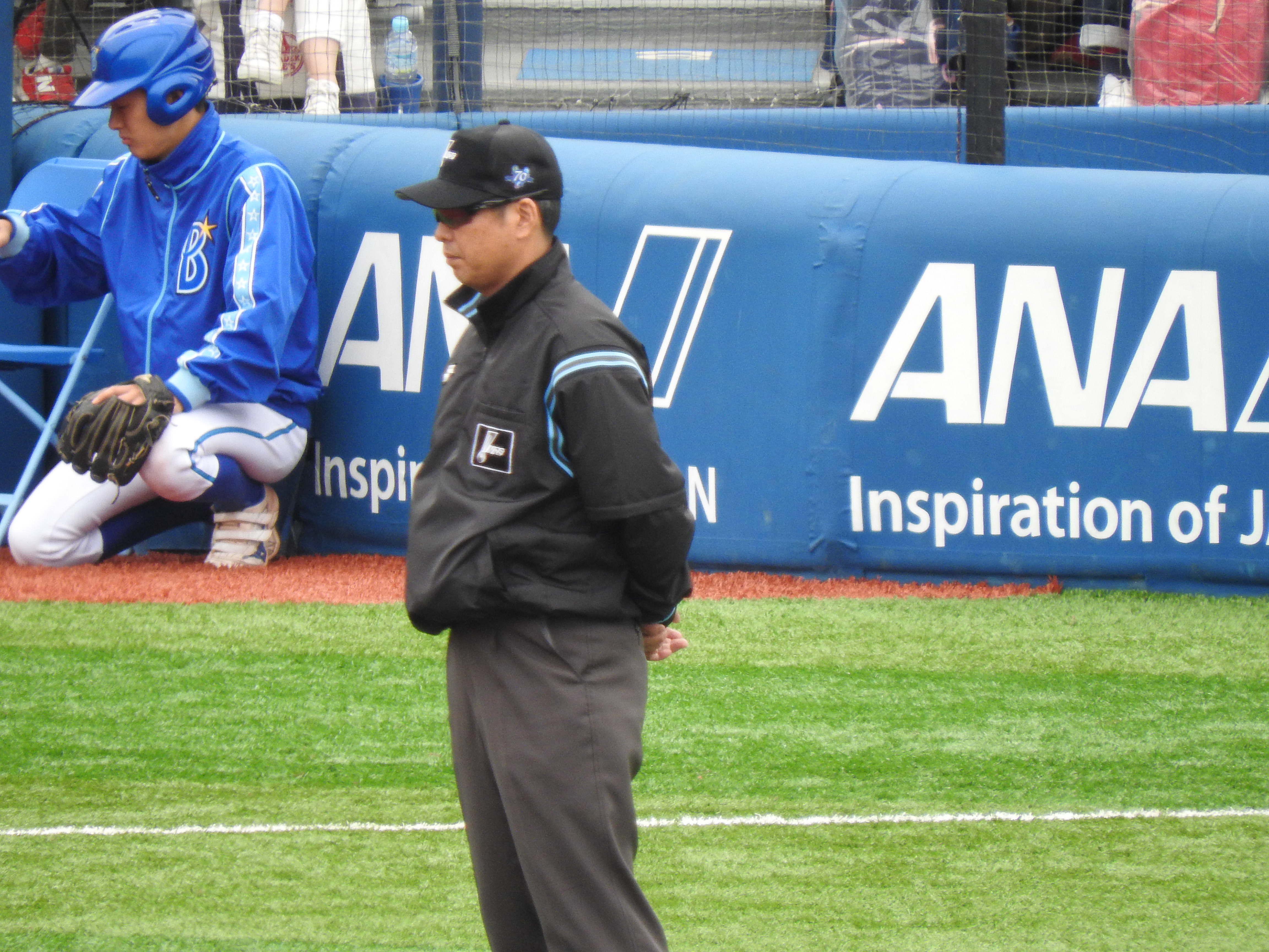 umpire of NPB.